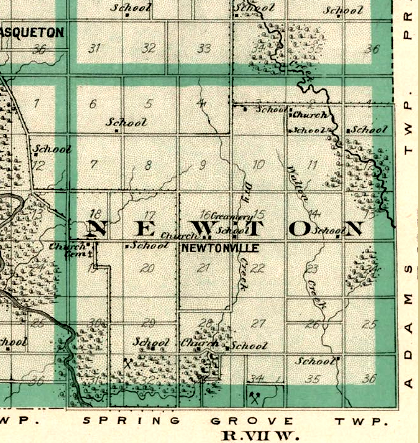 Map of Newton Township, Buchanan County, Iowa in 1904